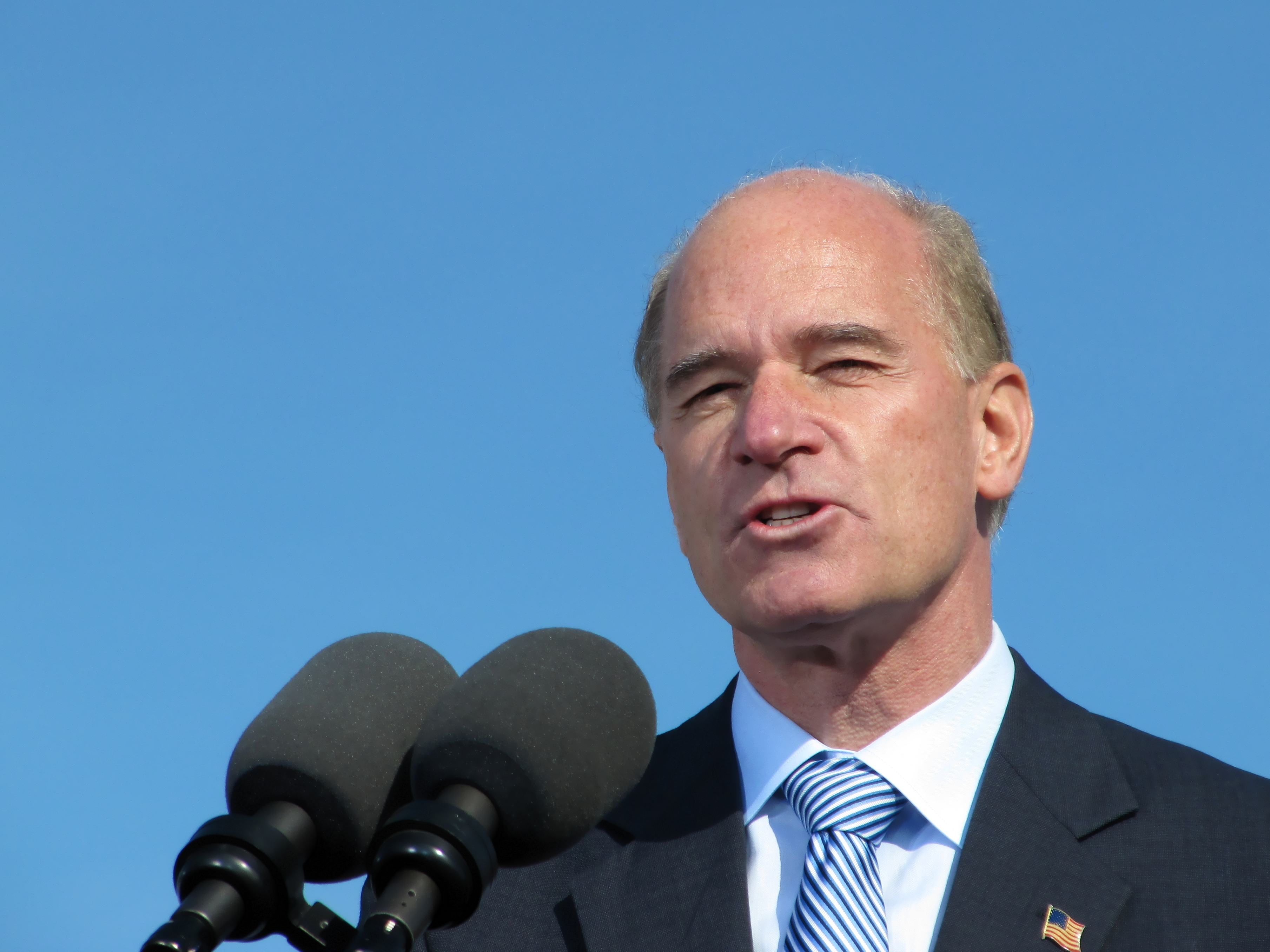 William Richard "Bill" Keating in Quincy, Massachusetts